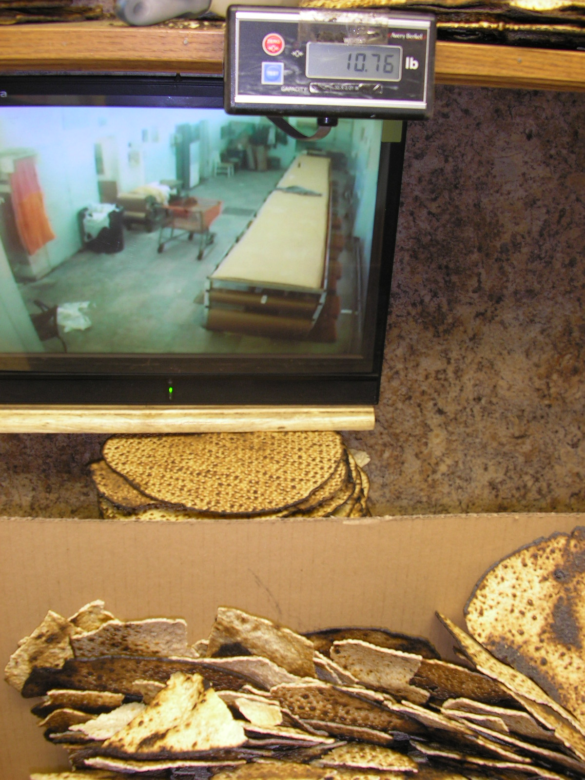 Daily Challah yield, with respective weight, from the Boro Park Shmurah Matzah Bakery. Of note that the weight of the cardboard box (when empty) is 1.65 lbs. making the actual Challah yield 9.1 lbs.